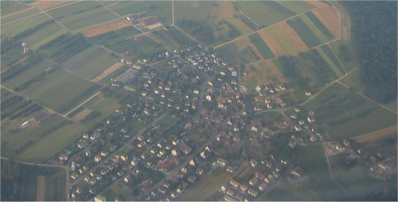 Schoenenbuch from approximately 2000ft on a flyby. [January 2007, User:Oschti (log)]